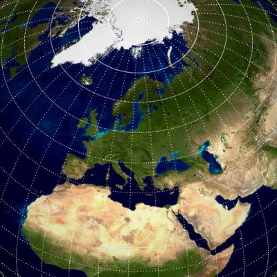 created using Xplanet